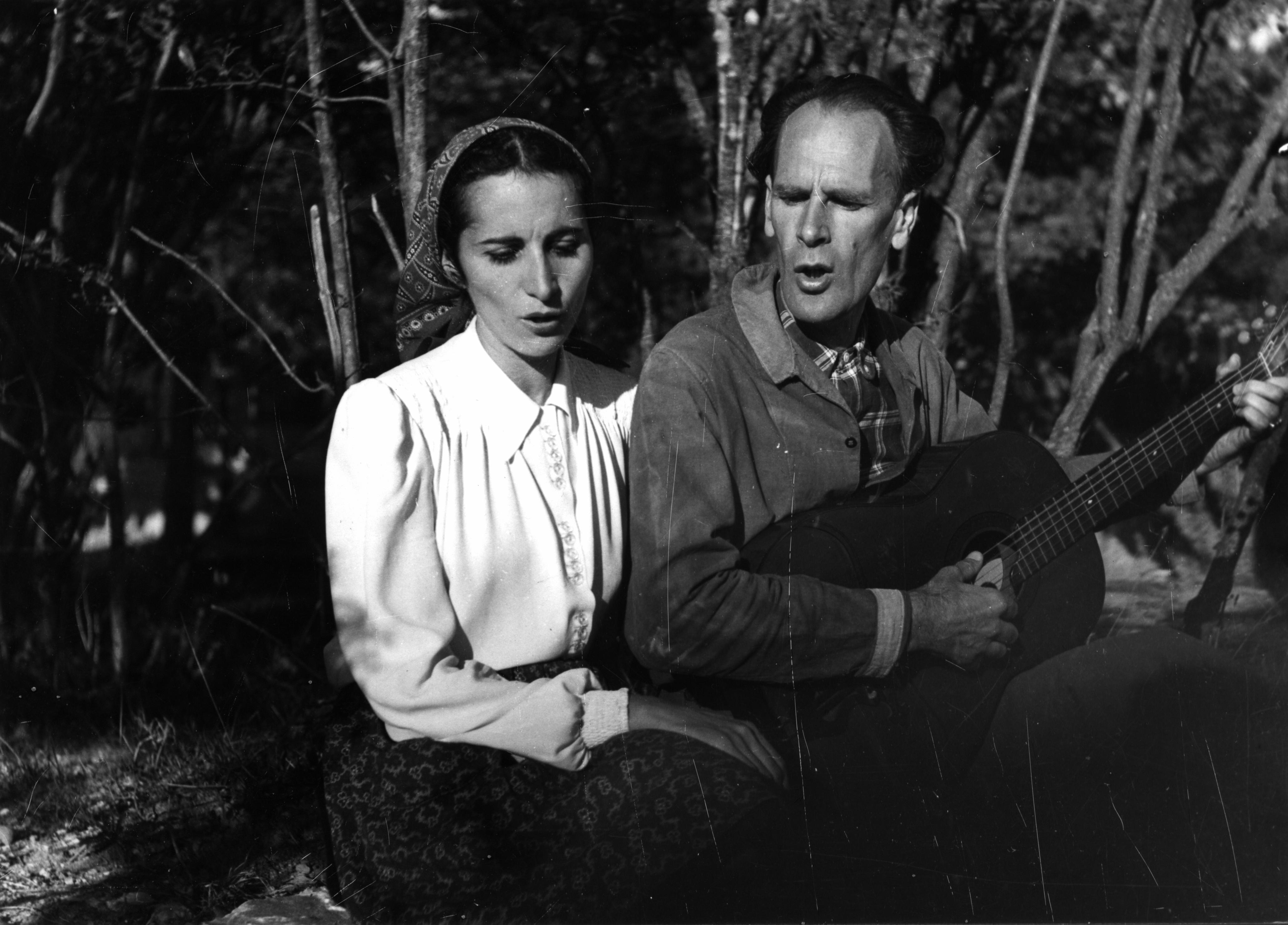 Lanza del Vasto and his wife Chanterelle.